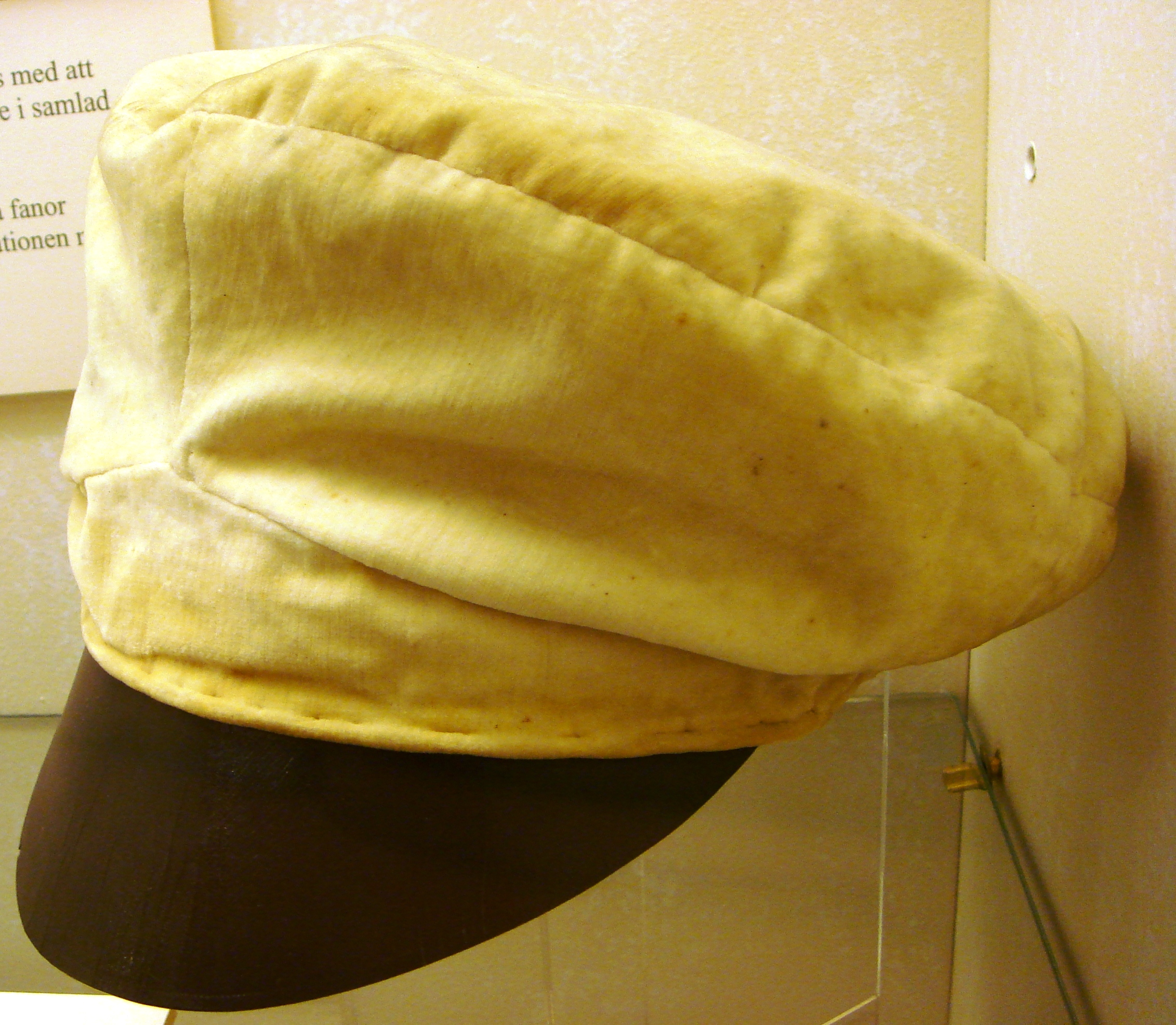 Student cap 1847 . Photo..